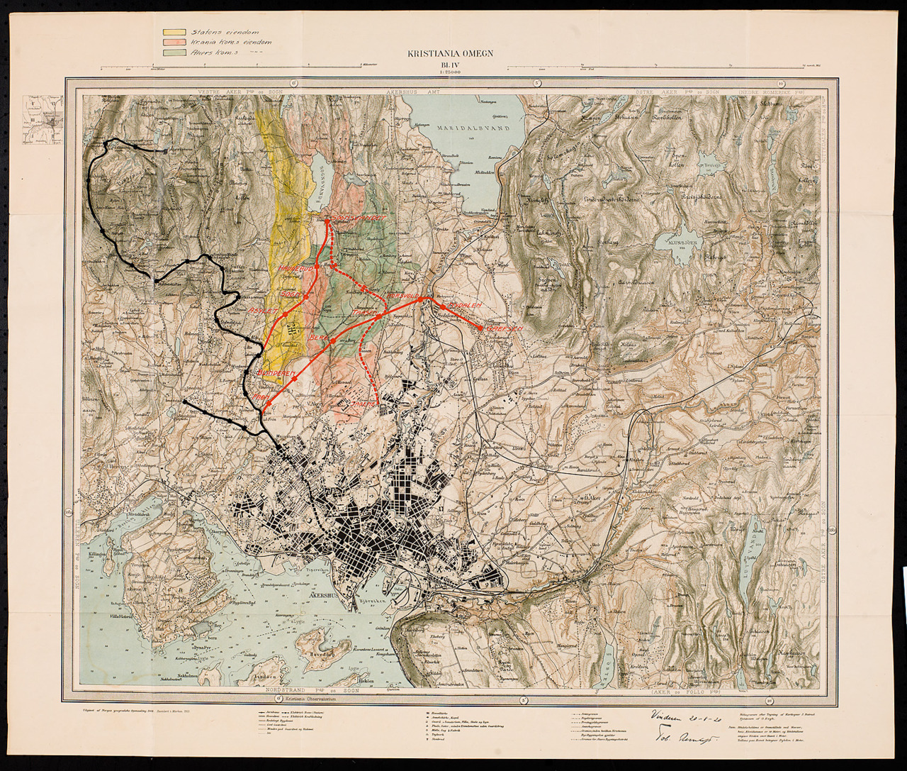 Map of proposed route of the Sognsvann Line, part of the Oslo Metro.